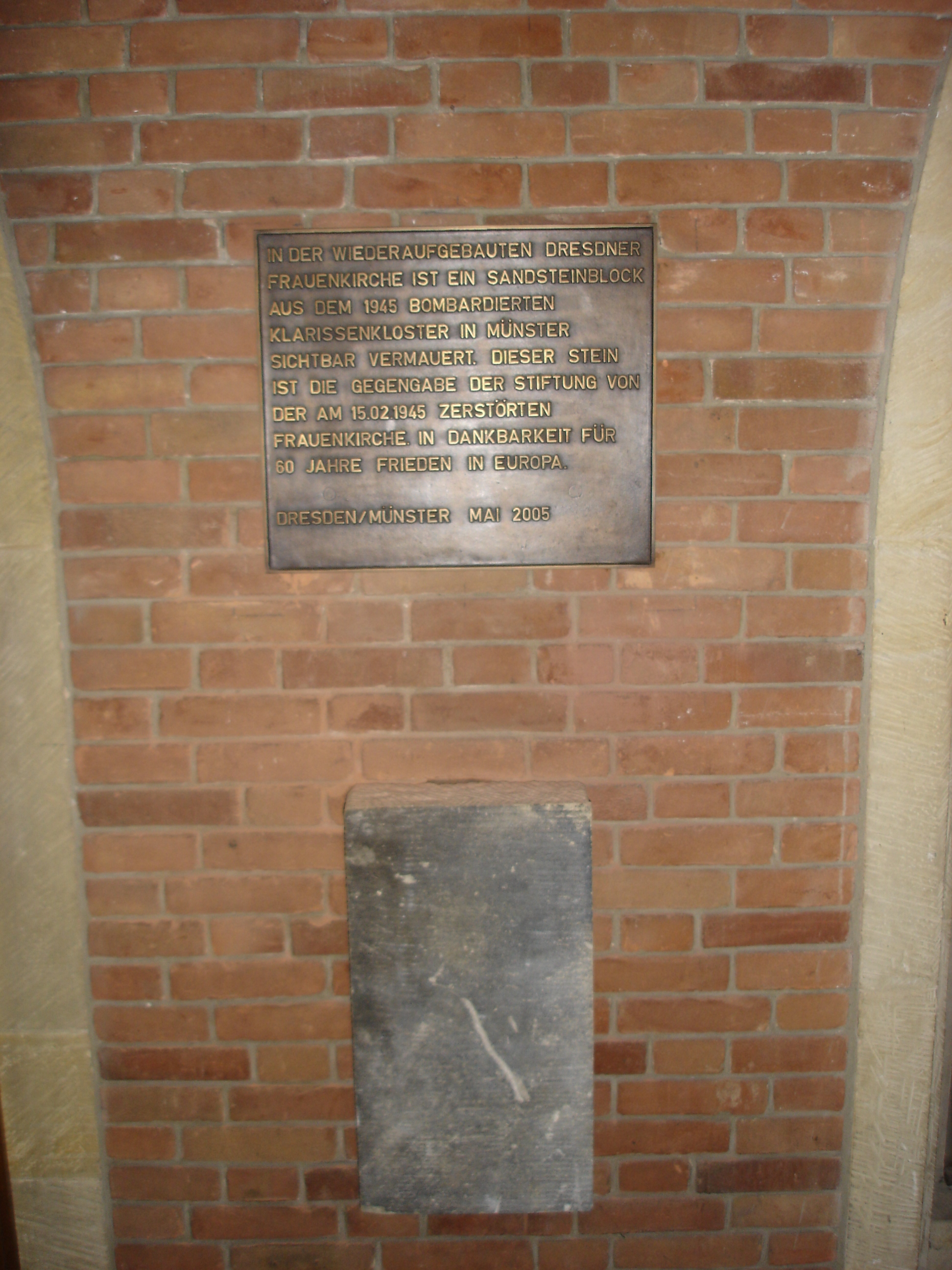 Stone of the Frauenkirche of Dresden in the historical city hall in Münster, Westphalia, Germany